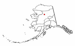 Adapted from Wikipedia's AK borough maps by Seth Ilys.